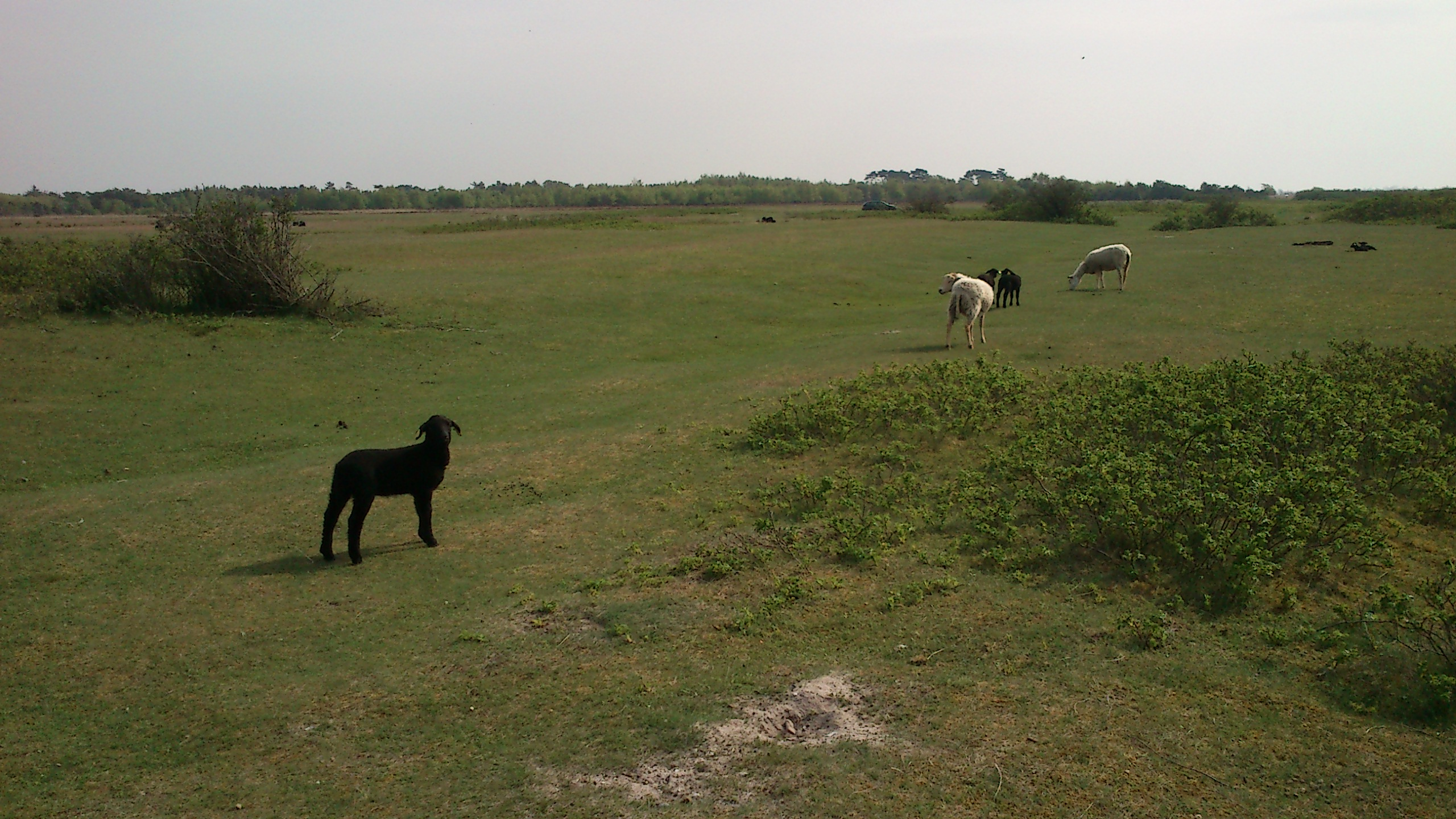 View of a part of the beach meadows on Endelave. The area is used for low impact sheepfarming